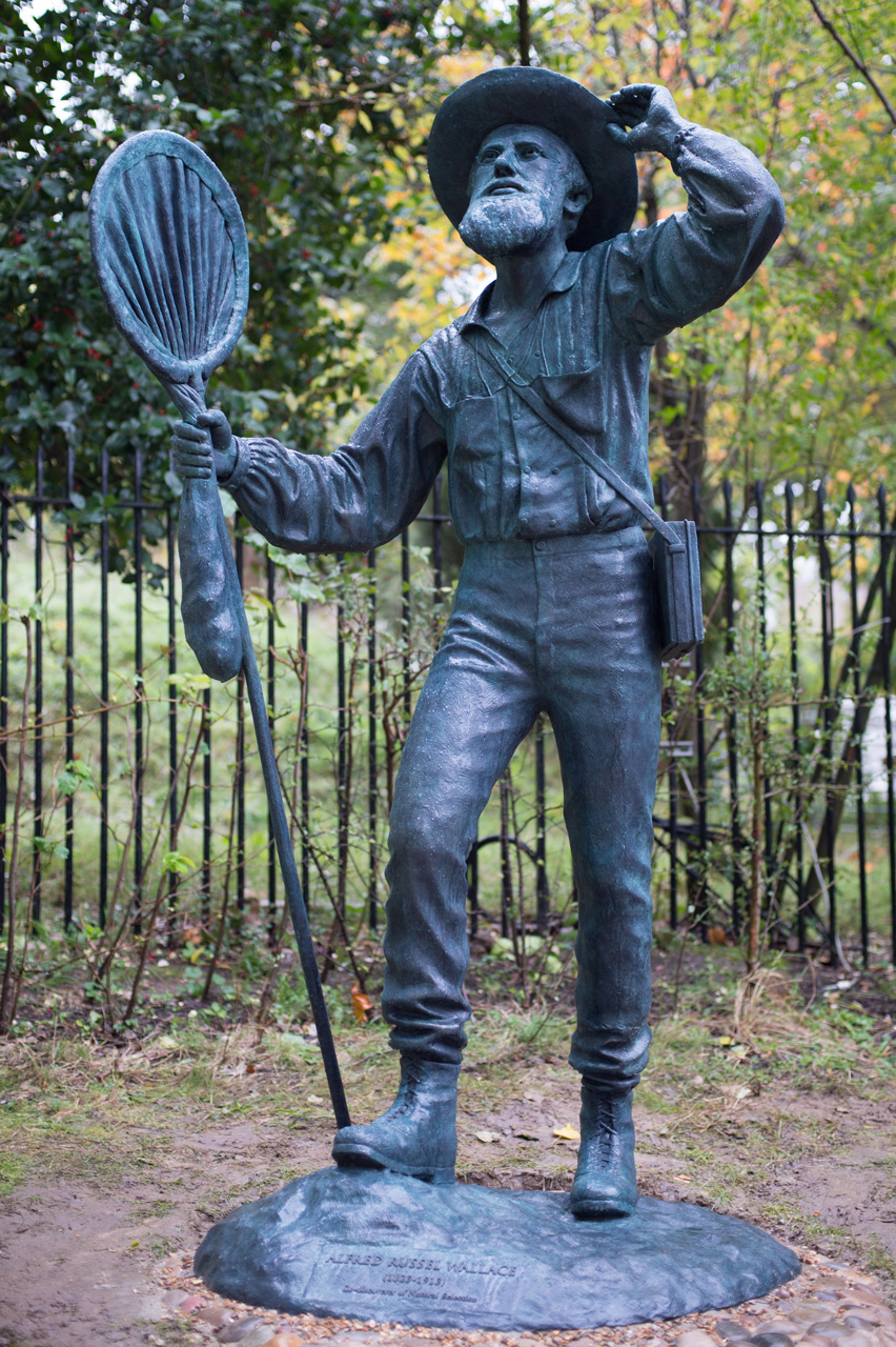 Bronze statue of the naturalist Alfred Russel Wallace at the Natural History Museum of London. Artwork by the British sculptor Anthony Smith.